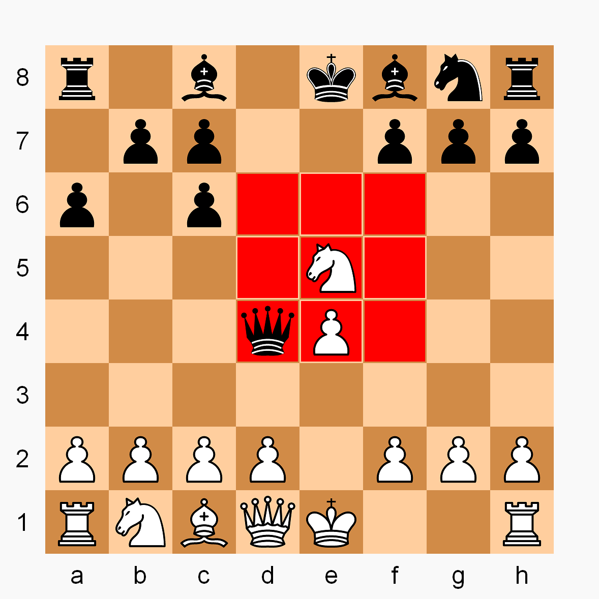 Illustrating bomb carrier detonation. Using the great free-use chess icons fashioned by David Benbennick (User:Dbenbenn). All done in MSPAINT.